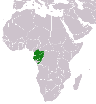 Moustached Guenon (Cercopithecus cephus) range